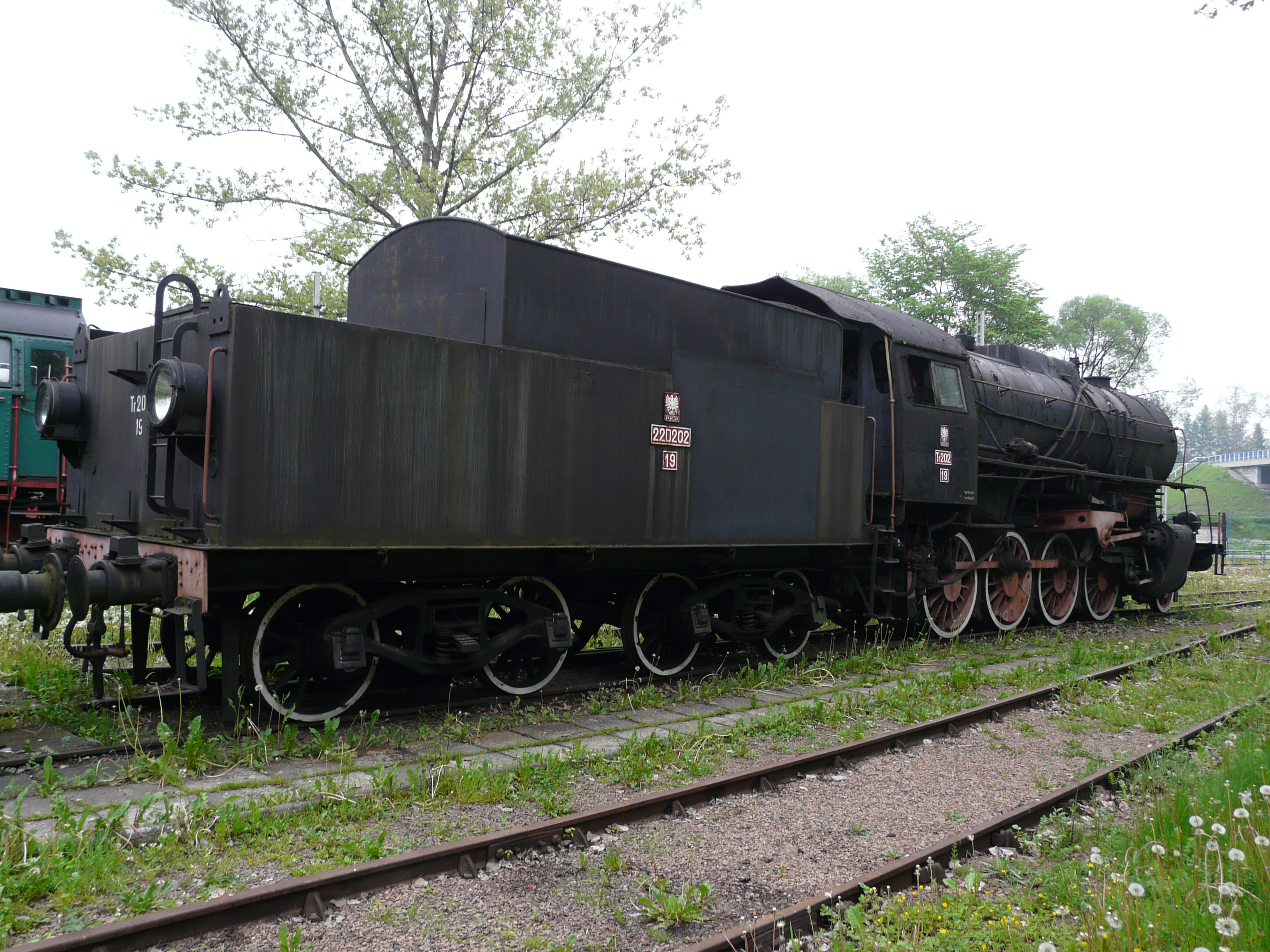 Polish freight locomotive Tr202-19 (produced by Vulcan Foundry). Chabówka Rolling-Stock Heritage Park